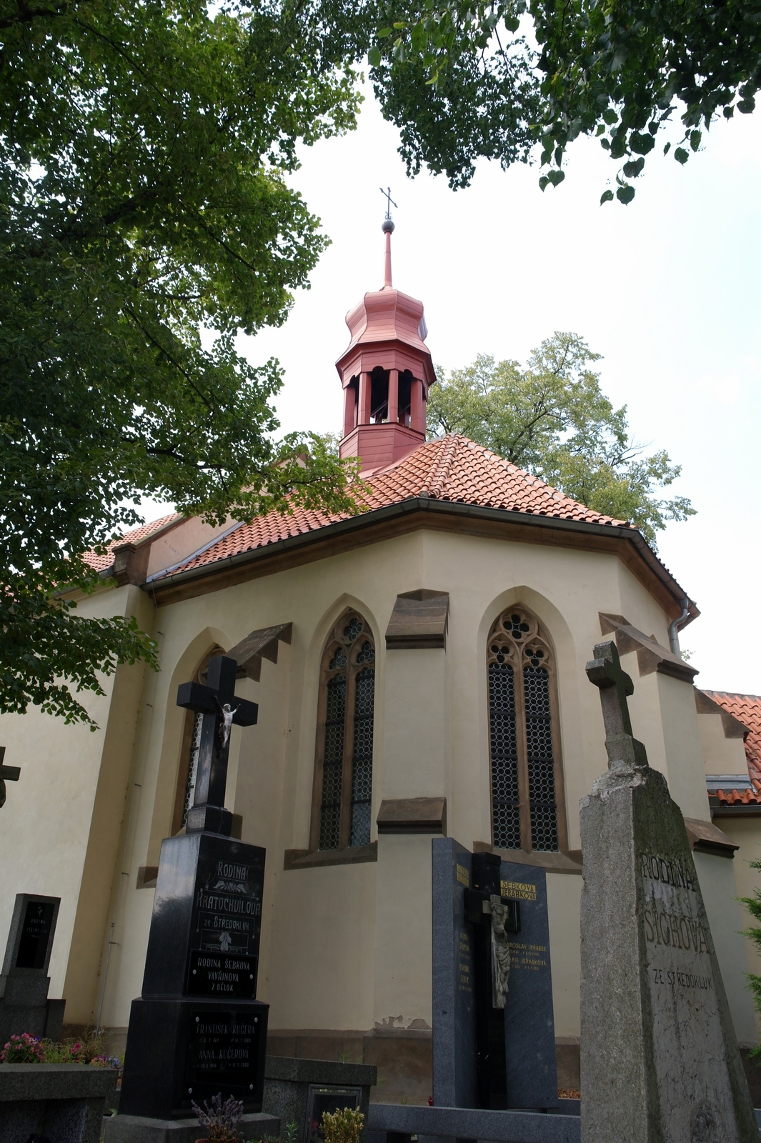 Graveyard church of Saint Lawrence, Černovičky settlement, part of Středokluky municipality. Presbytery with a Gothic vault and windows with tracery.